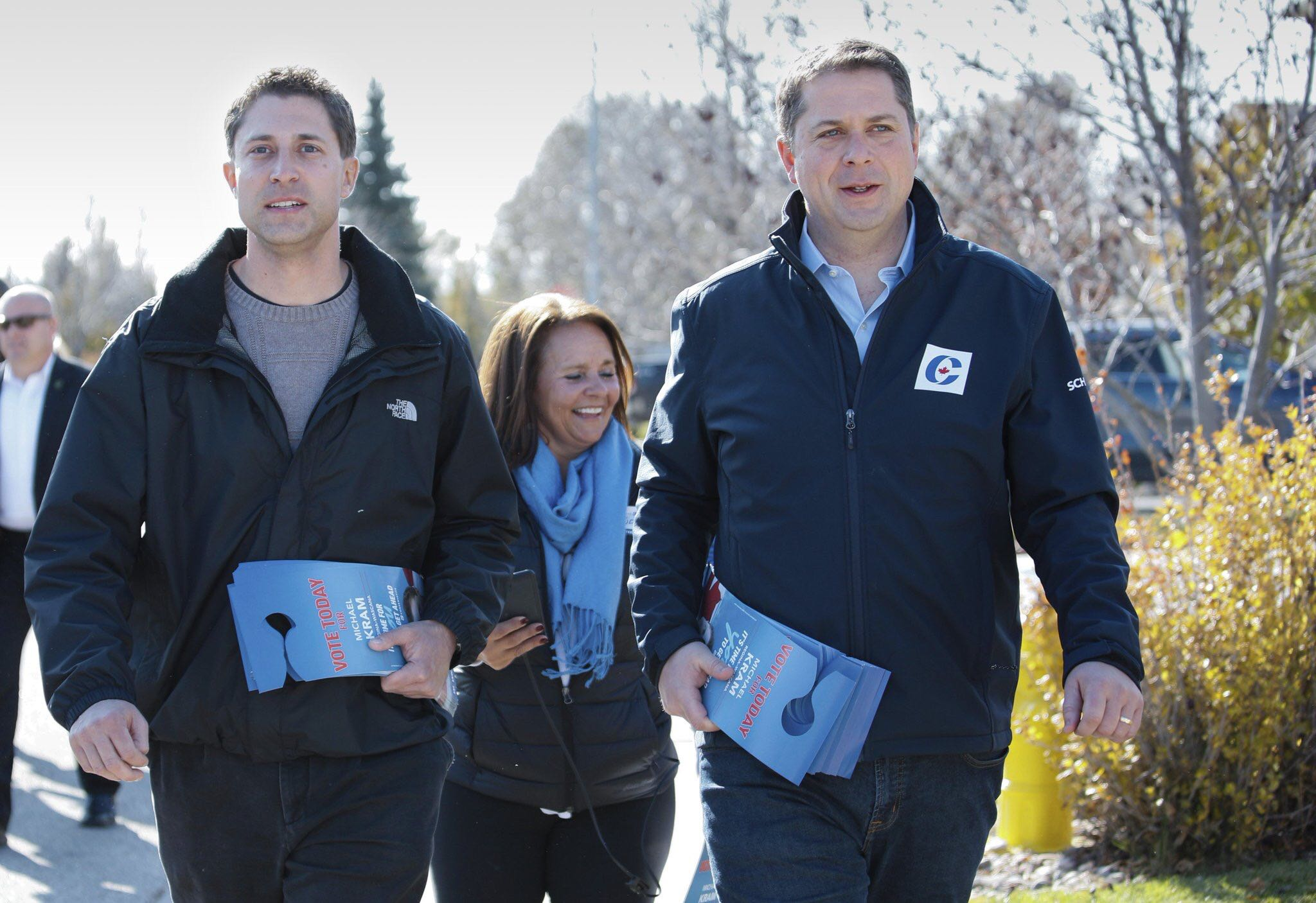 It's time for you to get ahead! Hitting the doors with Michael Kram to make sure people get out and vote for a Conservative government in Regina—Wascana today. Be sure to get out and vote!